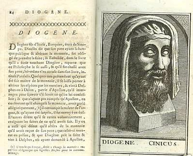 Diogenes the Cynic, from Diogenes Laertius' Lives, 1761, France